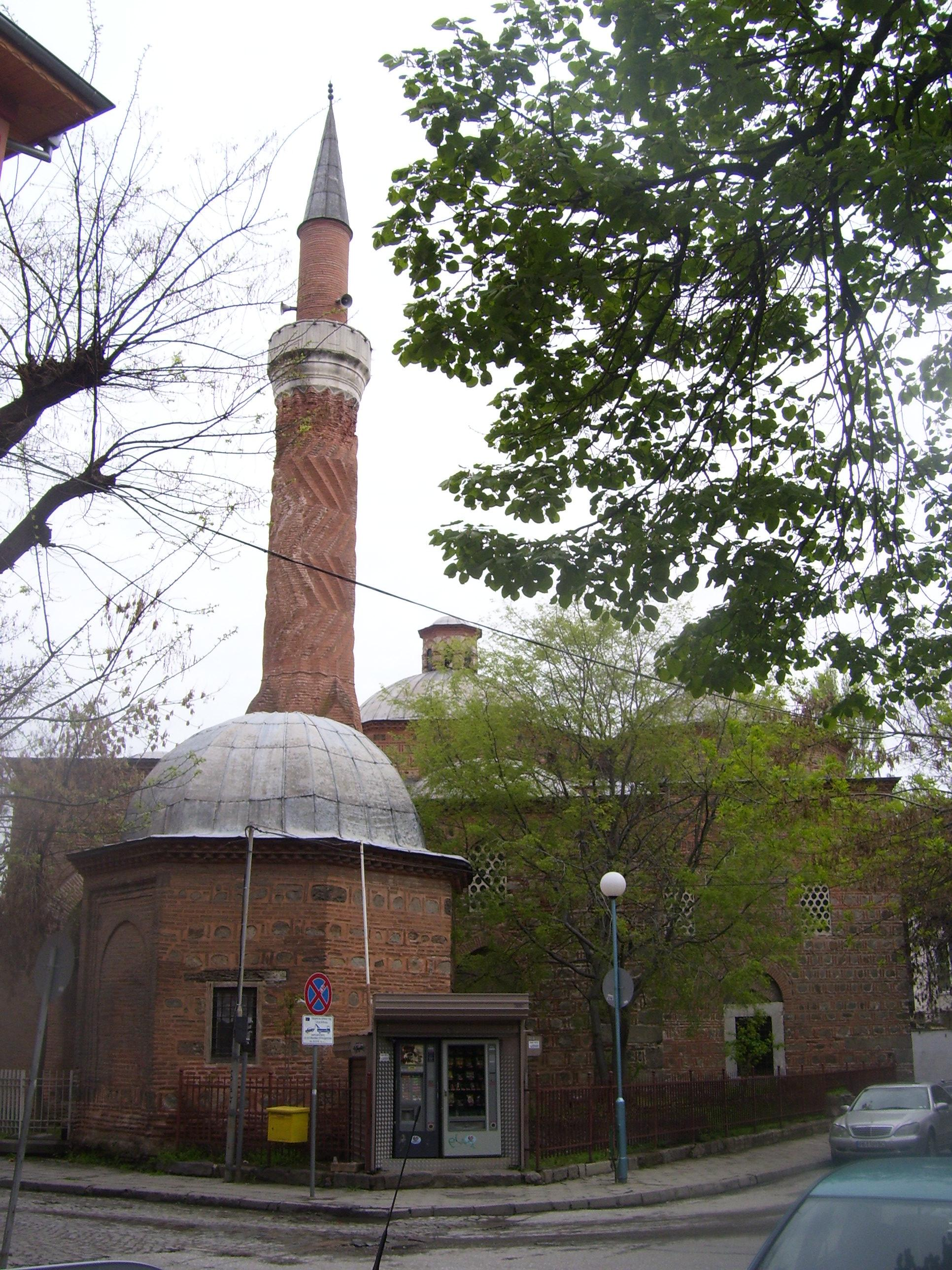 Şahabettin İmaret Mosque, Plovdiv, Bulgaria.